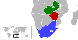 Locator for Zambia, Zimbabwe and South Africa